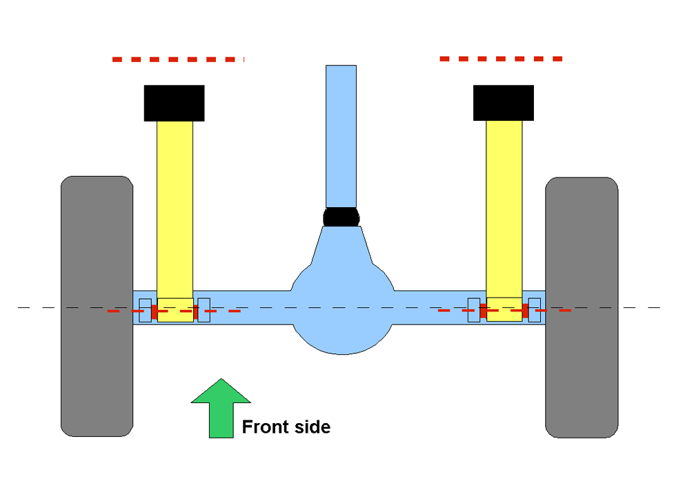 A schematic view of a Cantilever suspension.